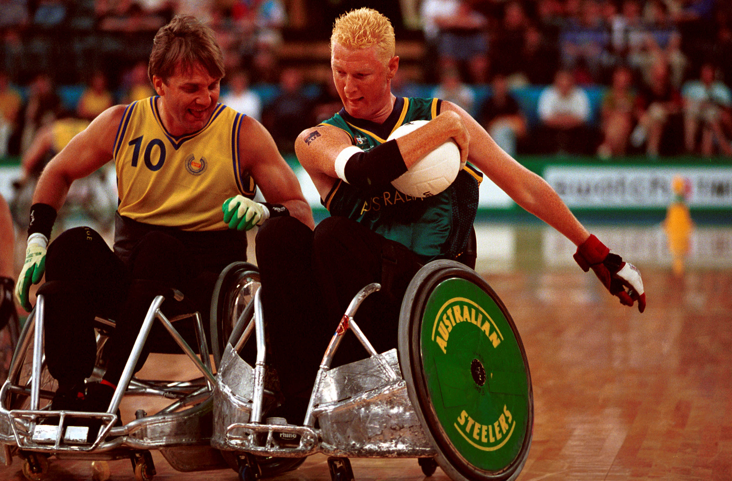 Australian wheelchair rugby "Steelers" player Brad Dubberley attacks while holding the ball in a match against Sweden during the 2000 Sydney Paralympic Games